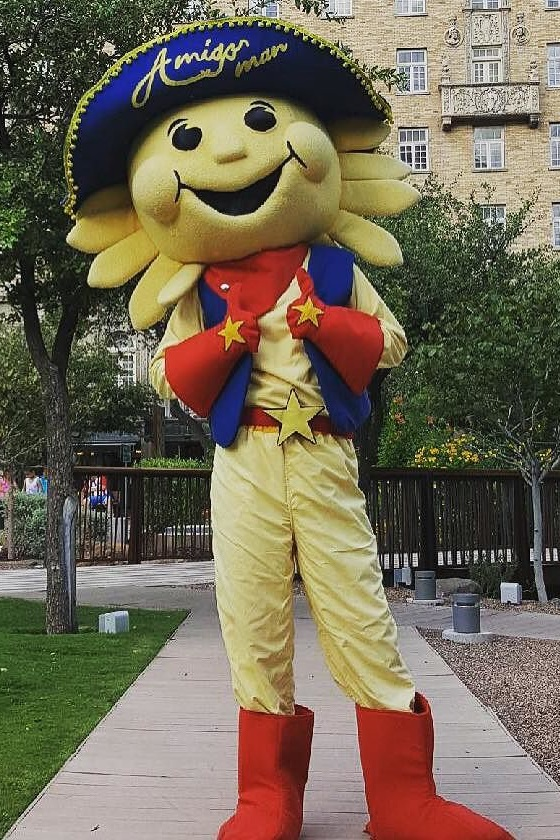 Amigo Man at San Jacinto Plaza, in El Paso, Texas, United States.